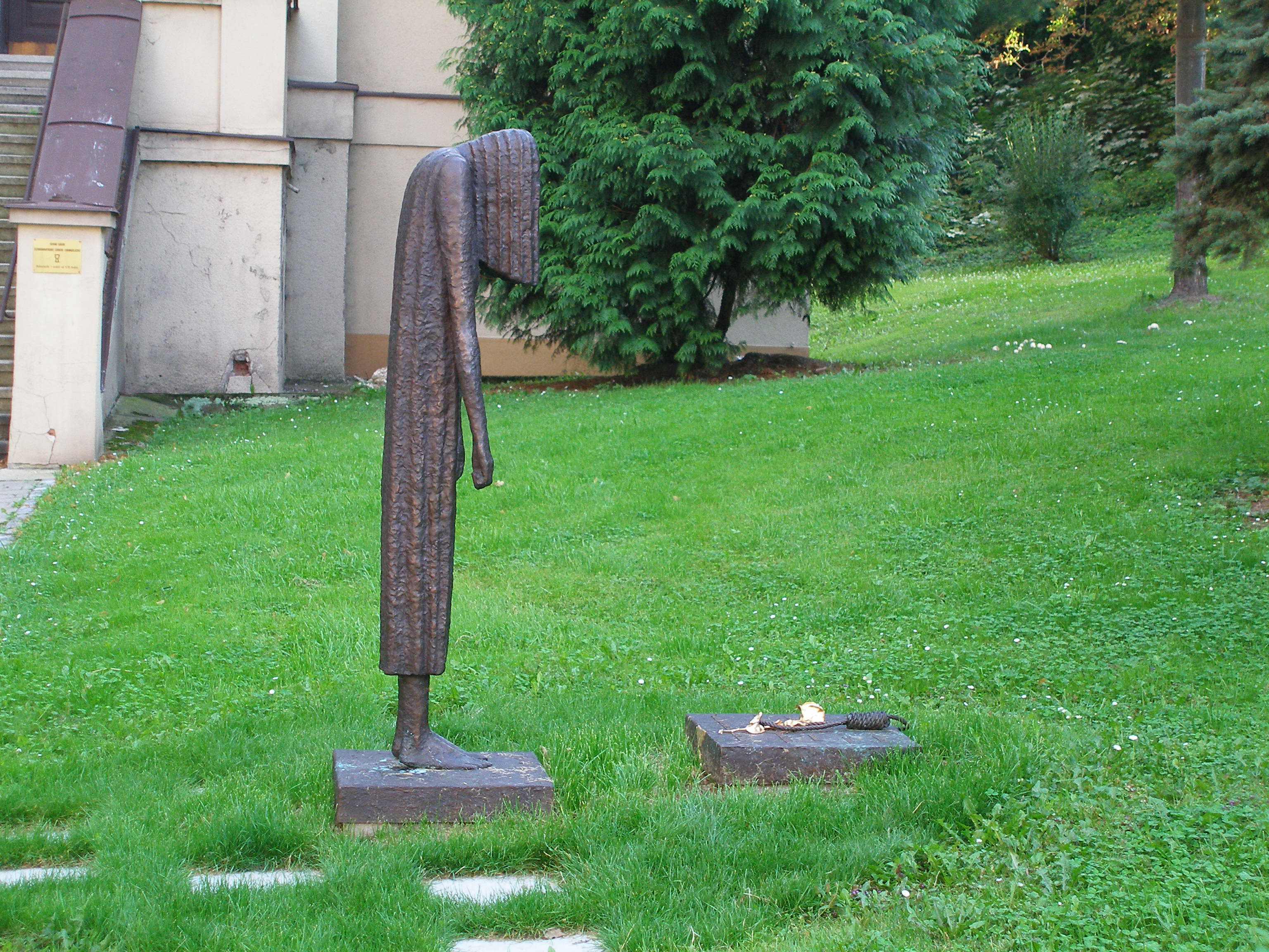 Statue of Milada Horáková near church of ČCE in Prague 5 - Smíchov